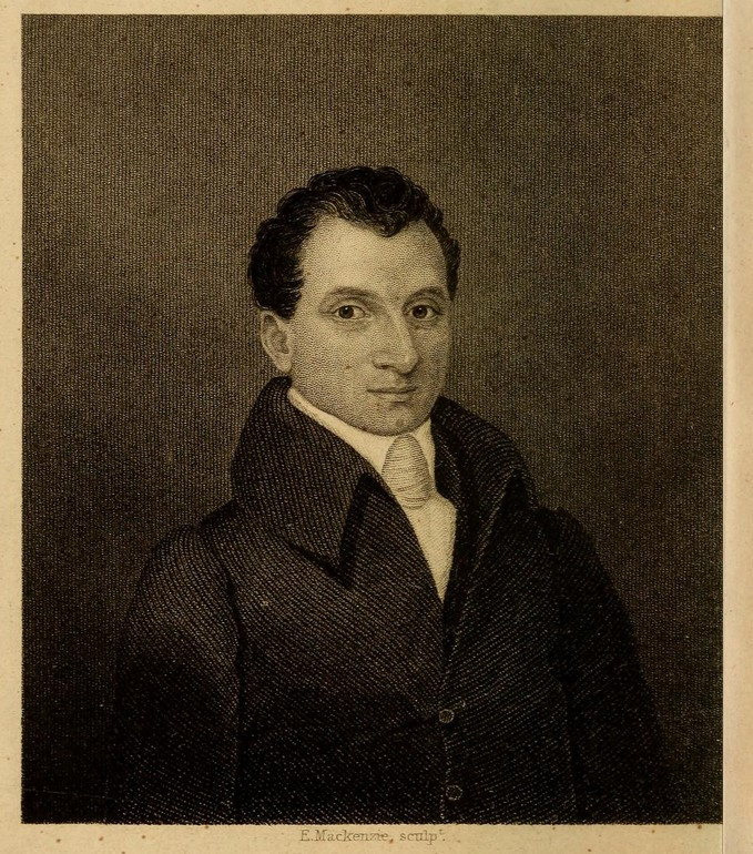 Portrait of Reverend Melville B. Cox, Methodist Episcopal Missionary Society